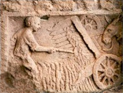 A gallic-roman harvester ("vallus") from a wall in Buzenol in Belgium